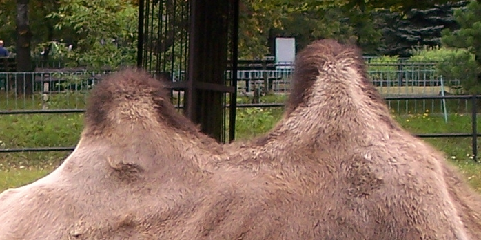 Camels in Silesian Zoological Garden in WPKiW (Chorzów, Poland).